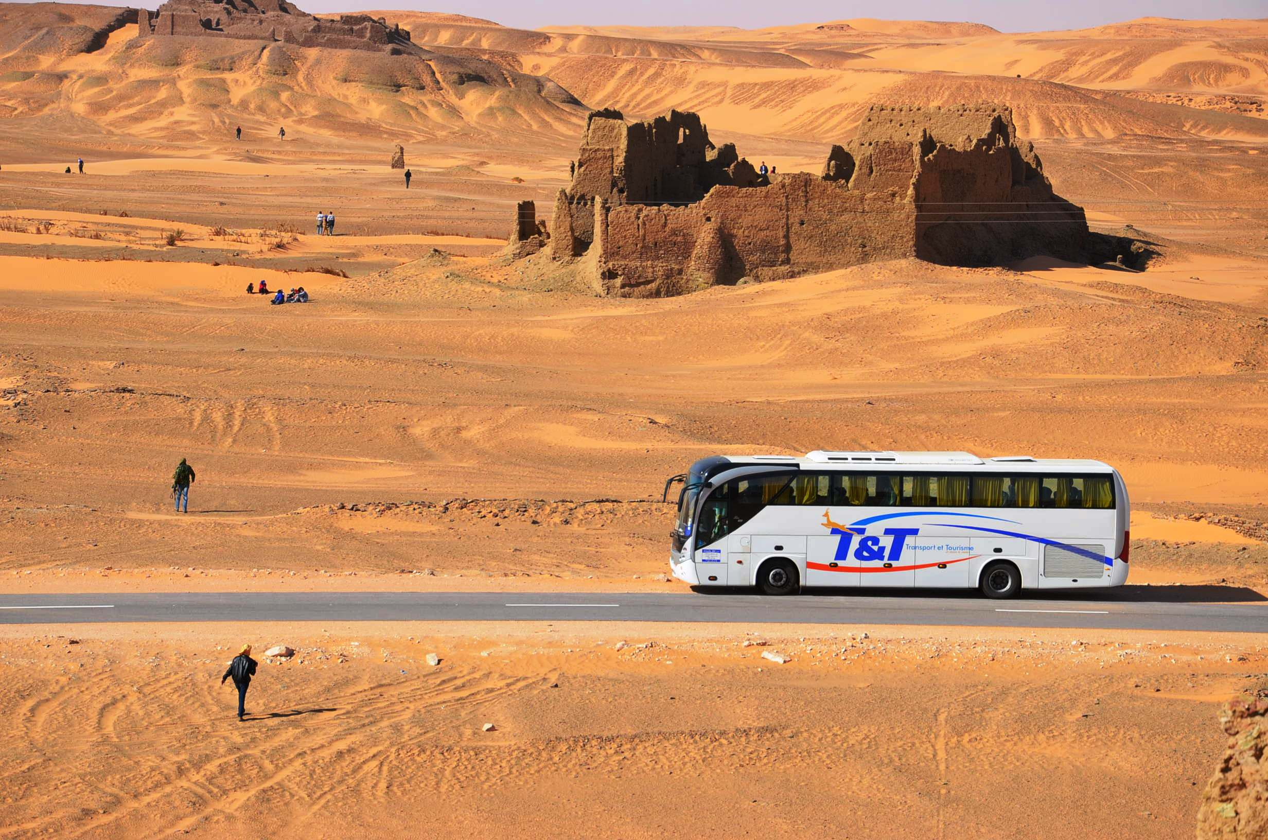 This is an image with the theme "Africa on the Move or Transport" from: Algeria